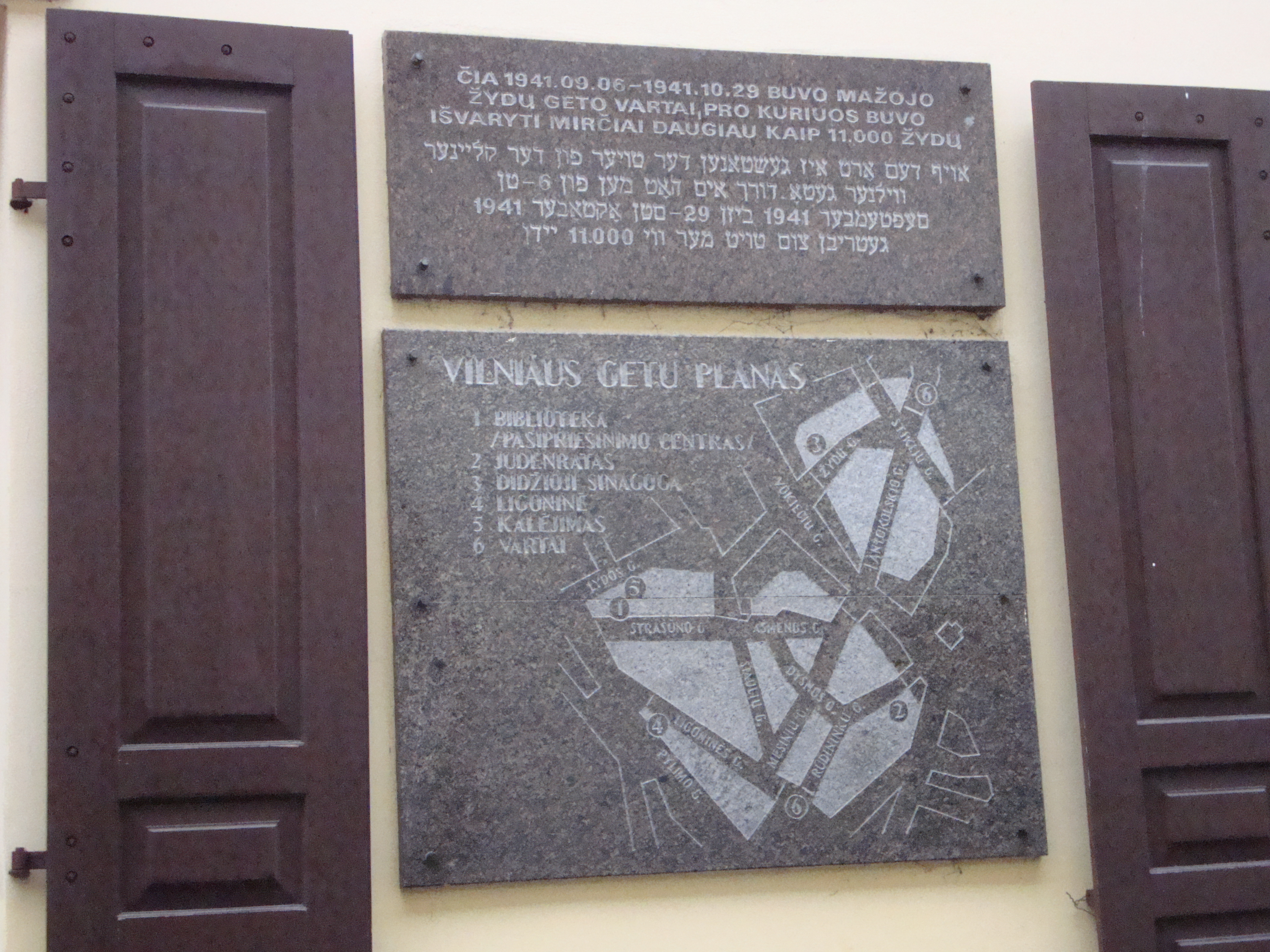 Photograph of the Jewish Ghetto Plaque, Vilnius, Lithuania